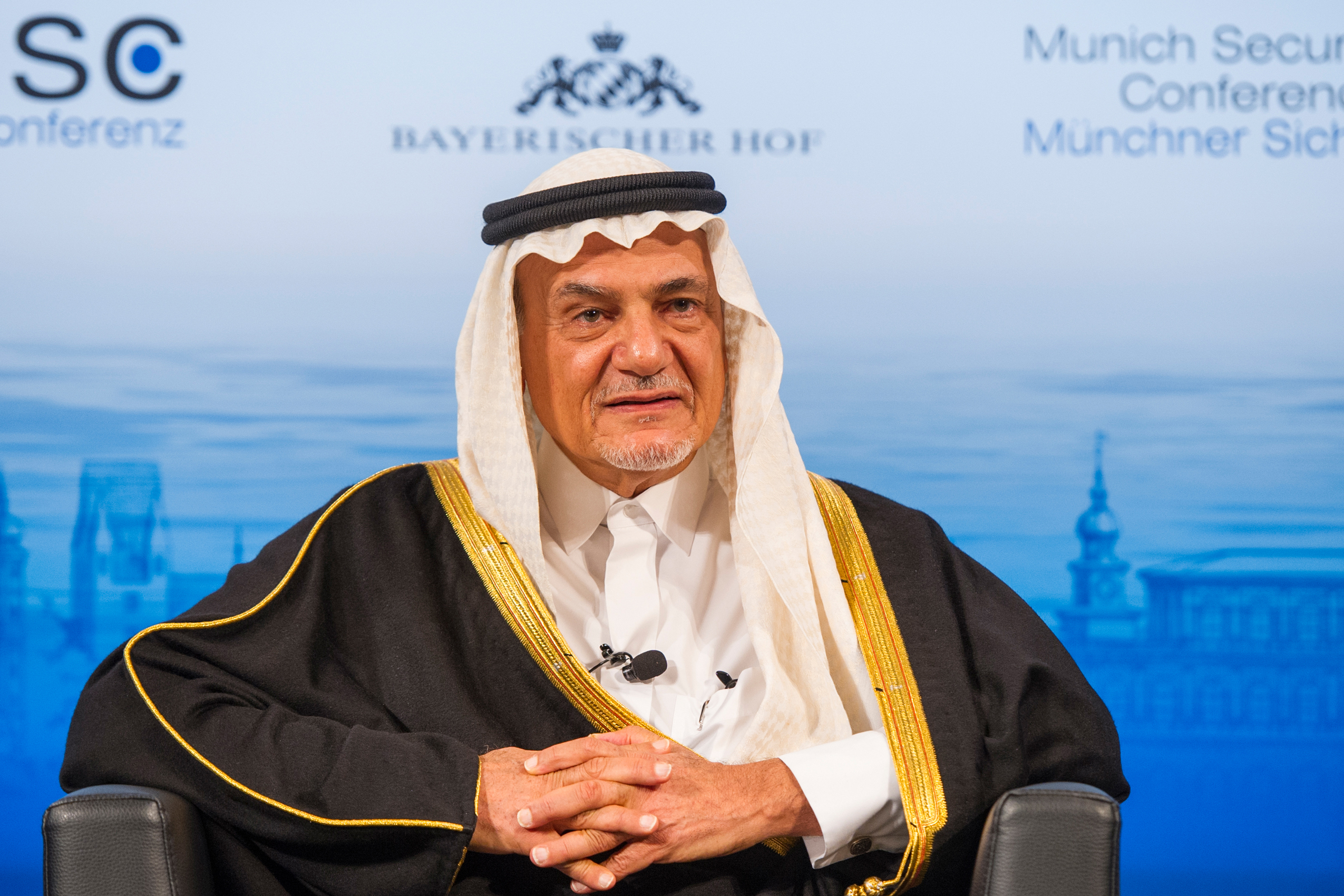 50th Munich Security Conference 2014: Prince Turki Al Faisal bin Abdulaziz Al Saud: Prince Turki Al Faisal bin Abdulaziz Al Saud (Chairman, King Faisal Center for Research and Islamic Studies).